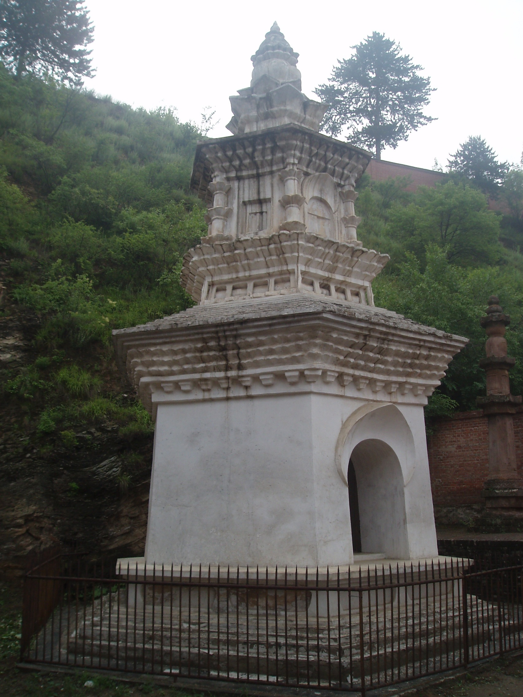 The pagoda of the Foguang Temple in Shanxi, China.